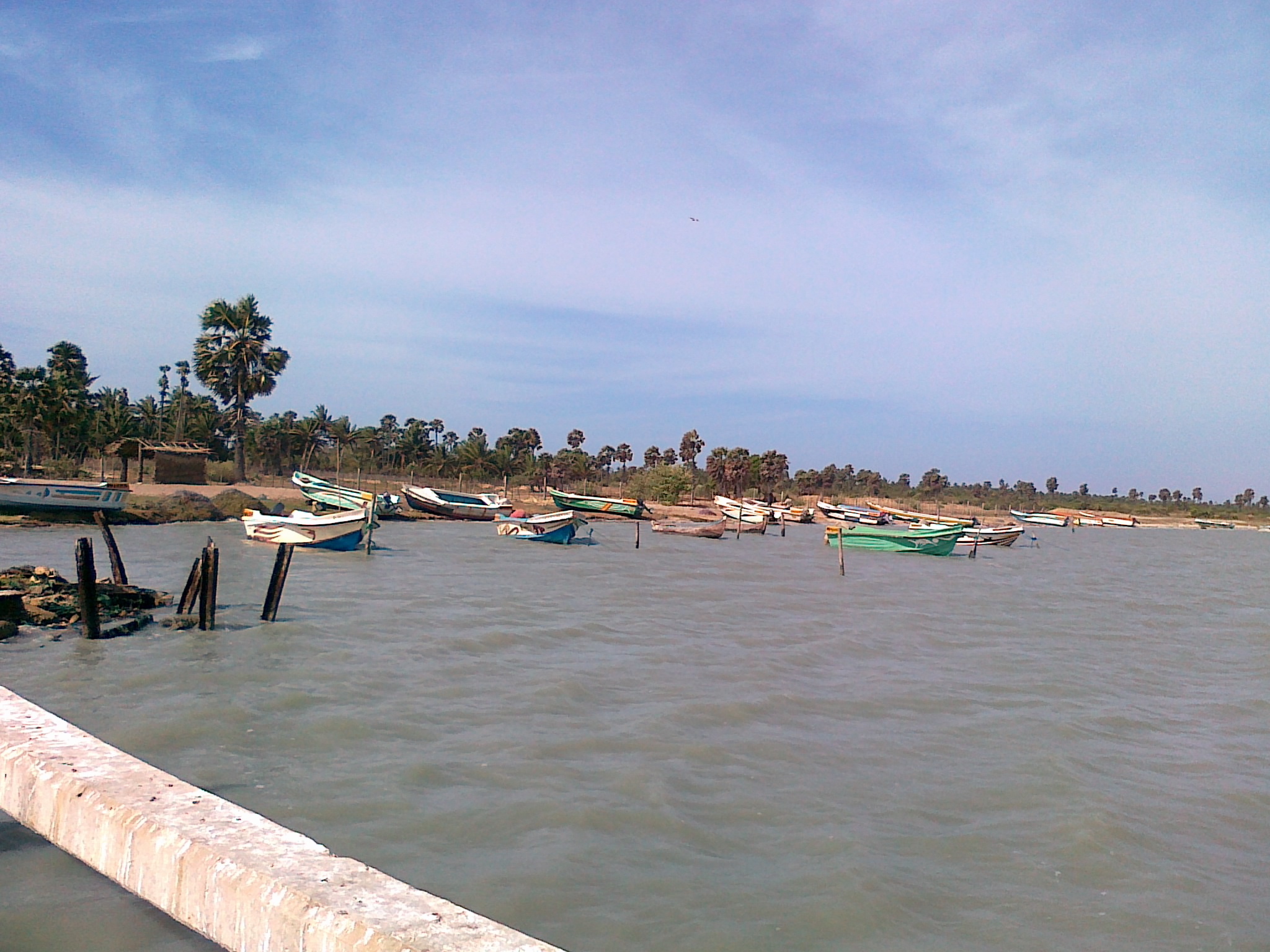 கச்சாய் கடல் நீர் எரி